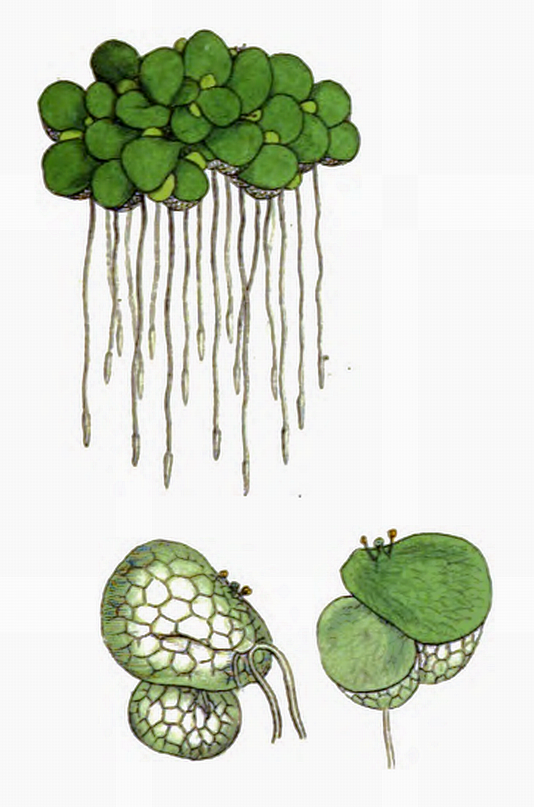 Lemna gibba